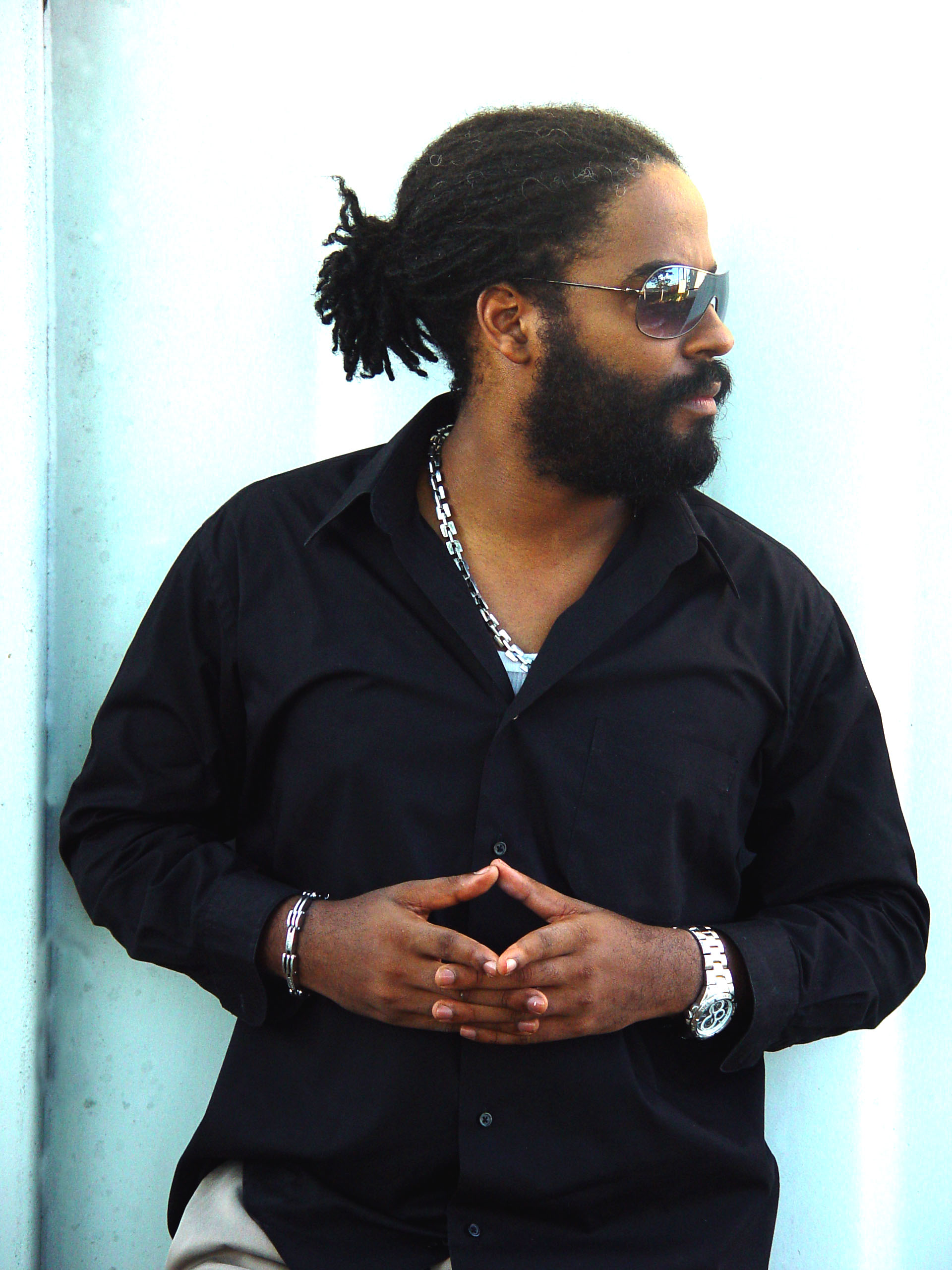 Picture taken from a photo shoot done may 2011